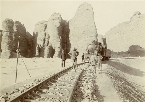 Hedjaz Railway - a steam locomotive in the desert